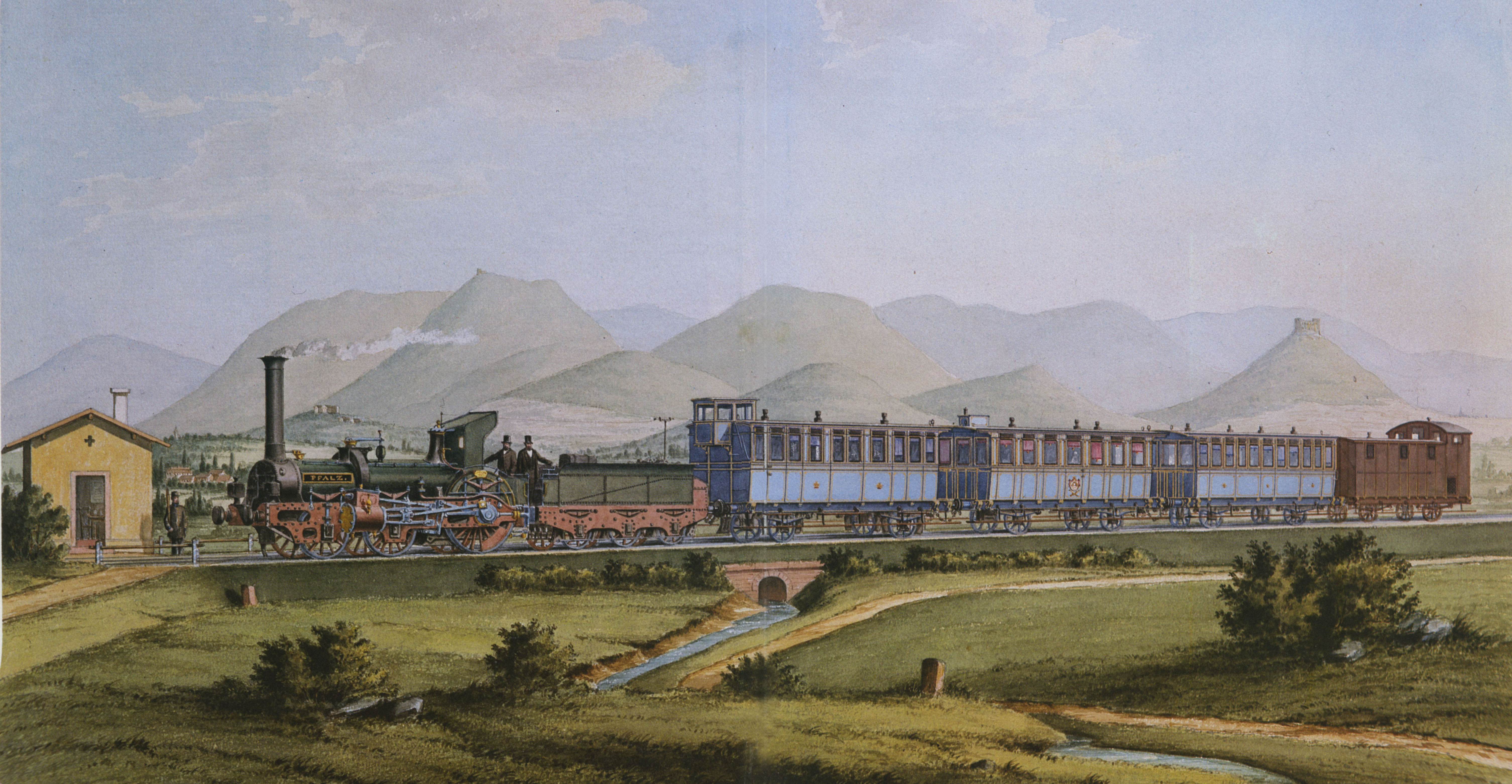 Royal Train for King Maximilian II. of Bavaria when traveling on Pfälzische Ludwigsbahn